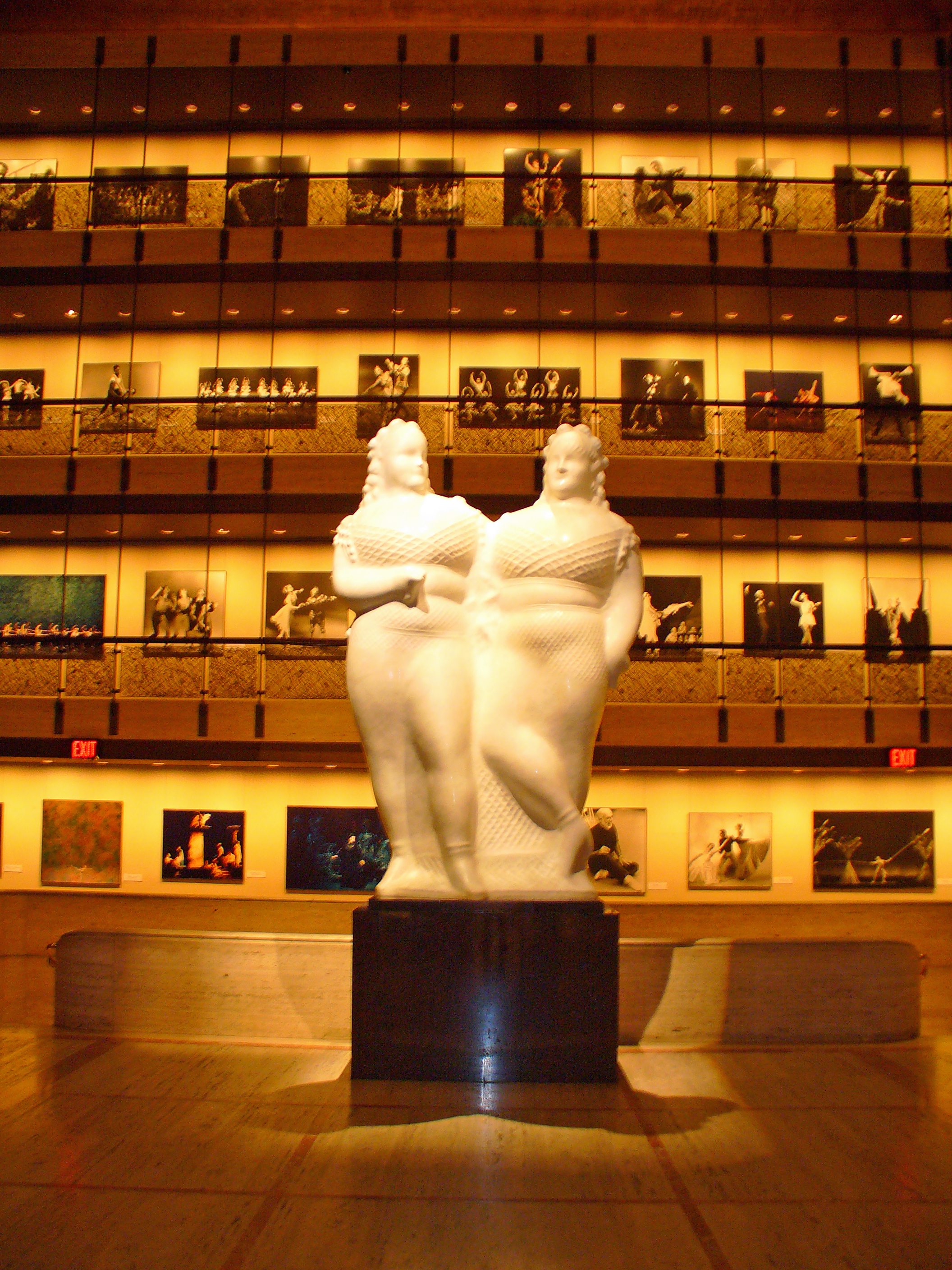 Promenade of the David H. Koch Theater with sculpture modeled from Elie Nadelman's Two Circus Women (1930).